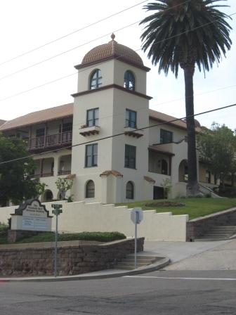 Elizabeth Bard Memorial Hospital Building, Ventura, California. July 2008.